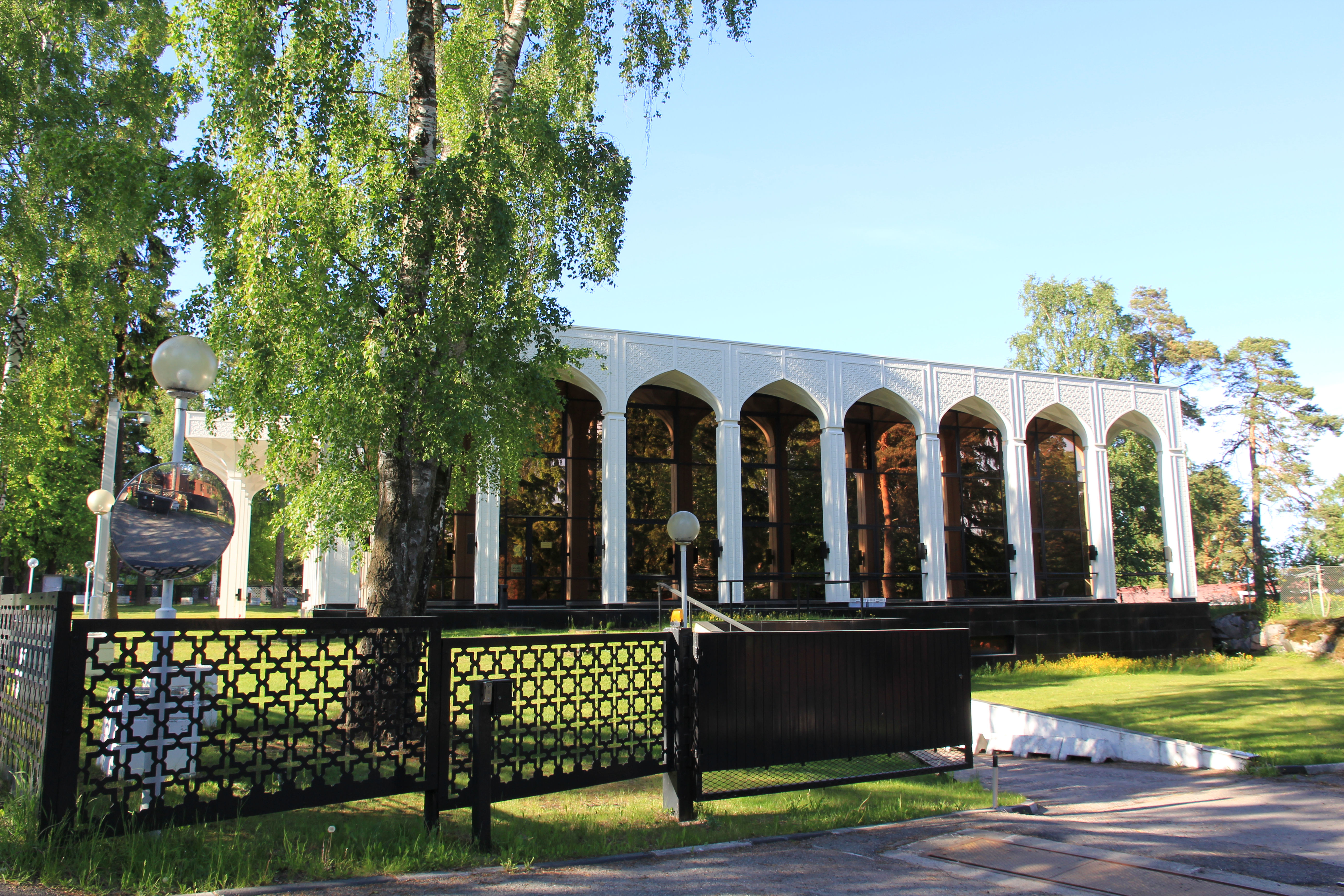 Iraqi embassy in Kulosaari island in Helsinki, address Lars Sonckin tie 2.